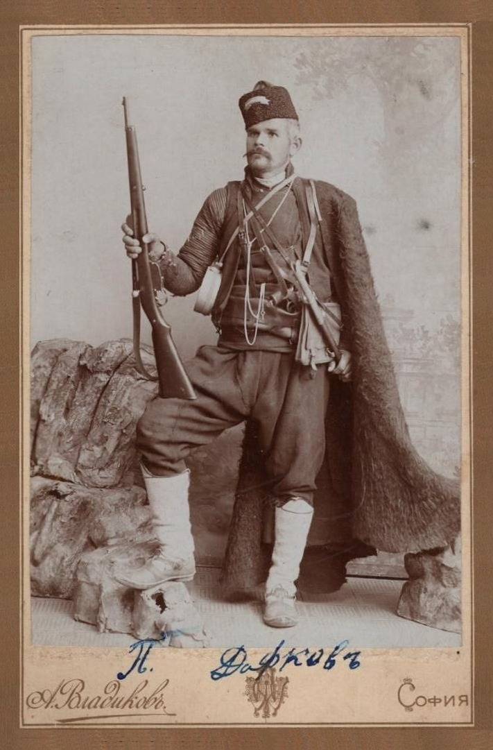 Portrait of IMARO Voevoda Pavle Davkov operating in Gorna Dzhumaya, today Blagoevgrad, Bulgaria